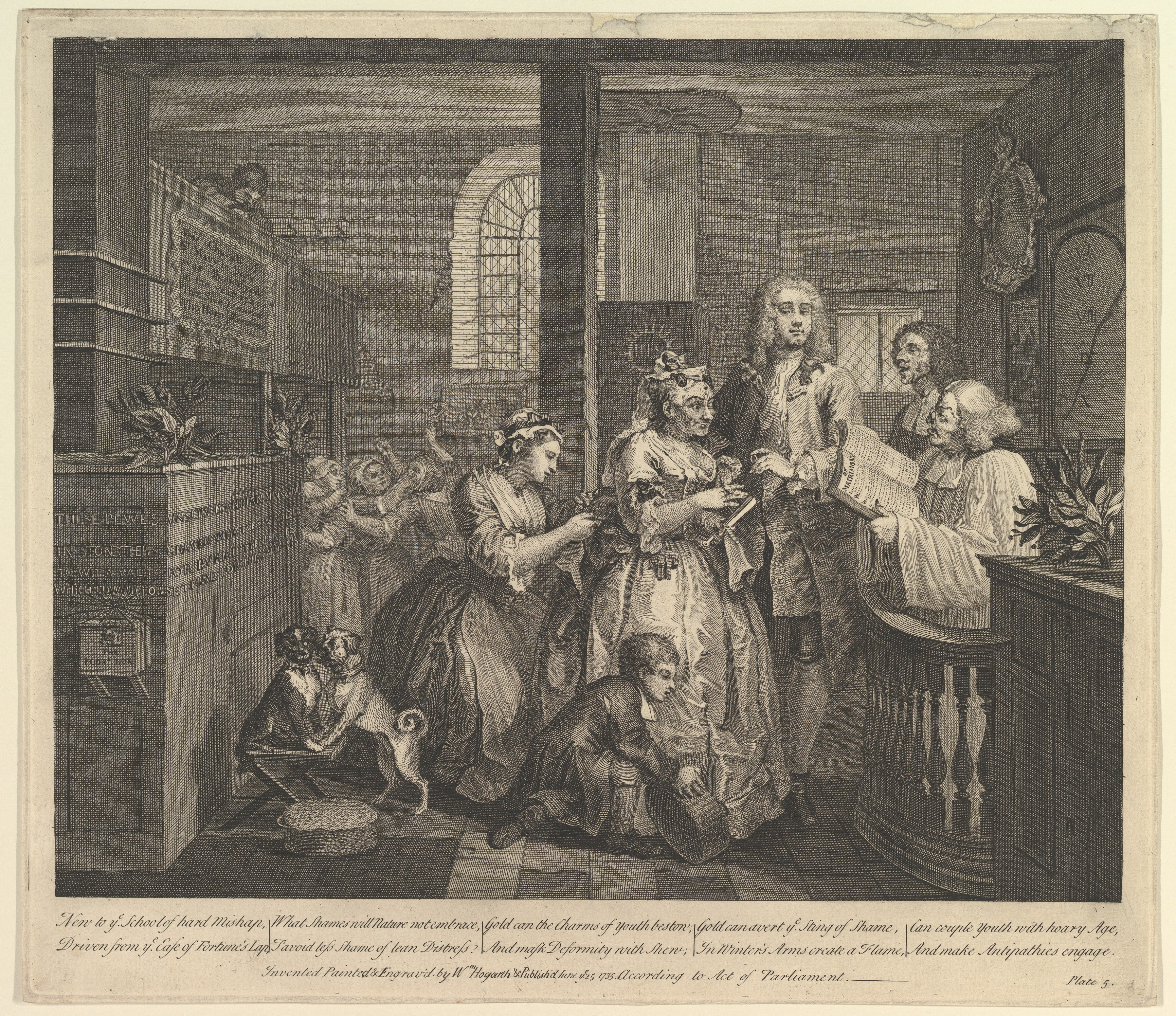 Print; Prints